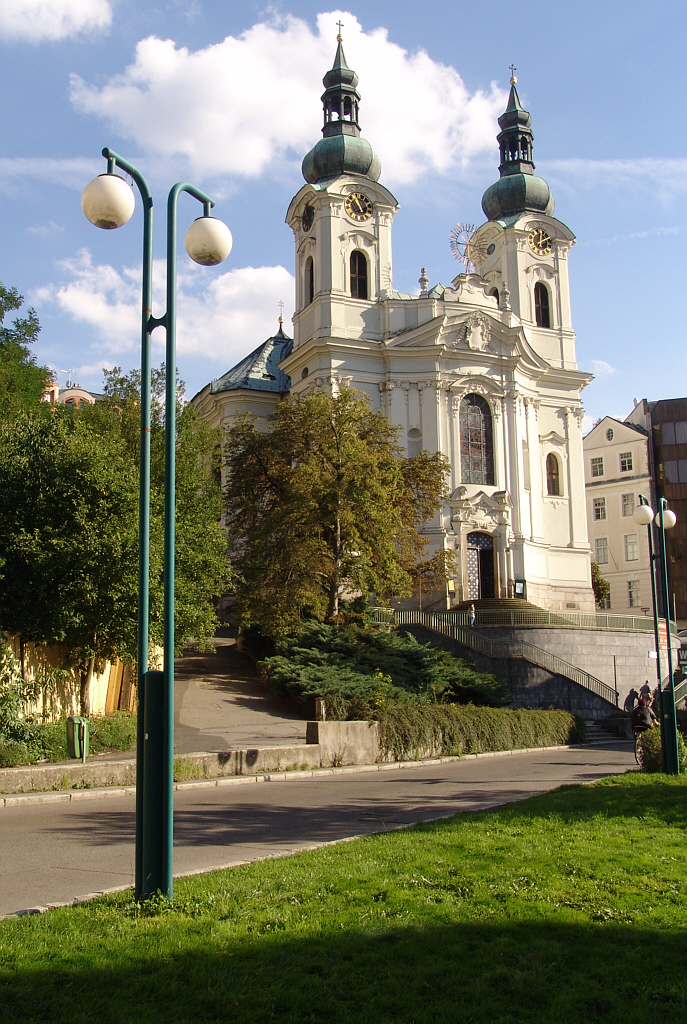 Church of St Mary Magdalene designed by Kilián Ignác Dientzenhofer in Karlovy Vary, Czech Republic.